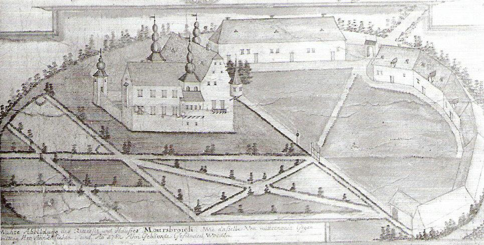 Plan of surveyor Franz Ehmans; detailed view of Morsbroich